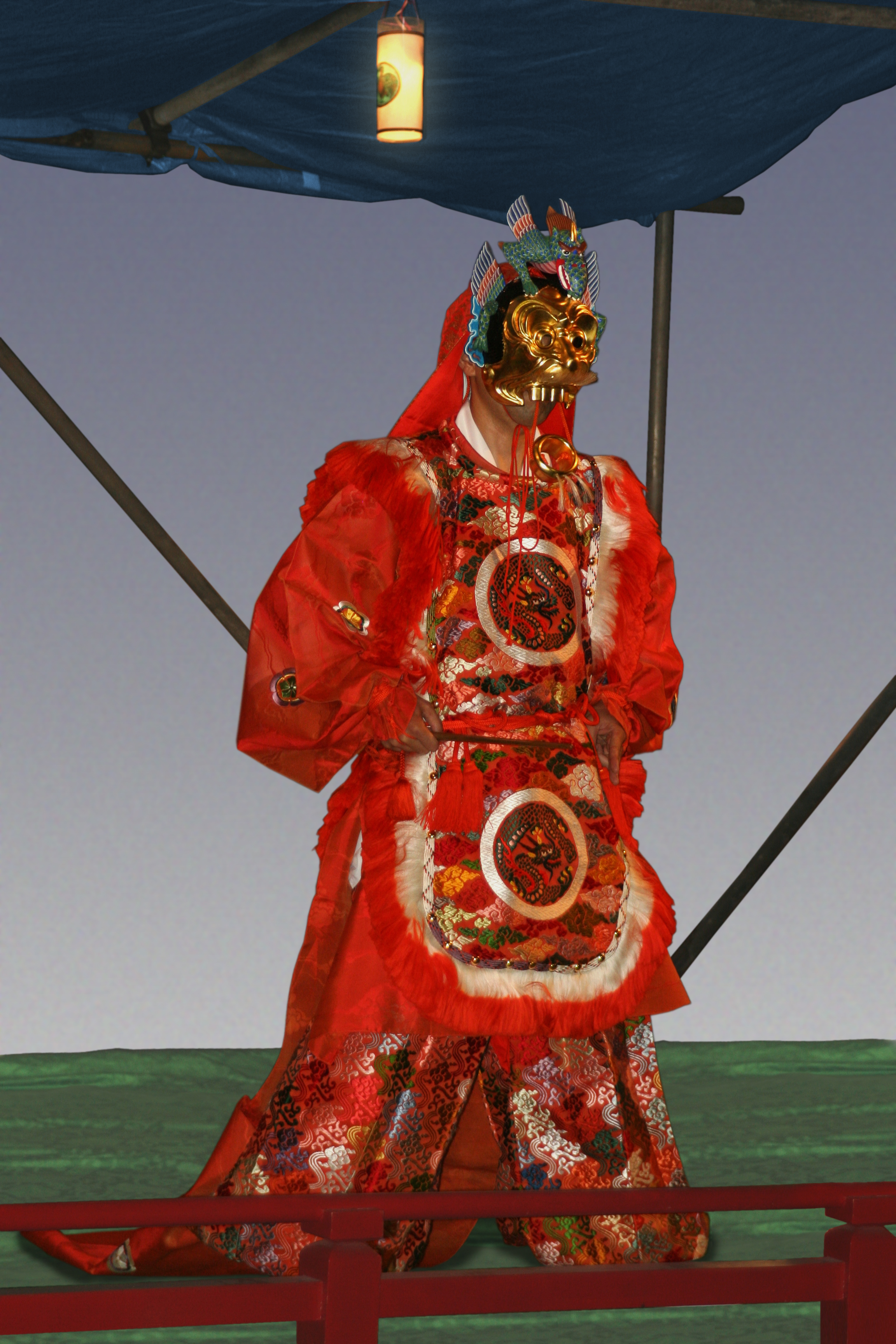 Dancer during a Gagaku Performance at the Tanabata Matsuri at morooka kumano jinja ( 師岡熊野神社 ) in Okurayama, Kanagawa, Japan.